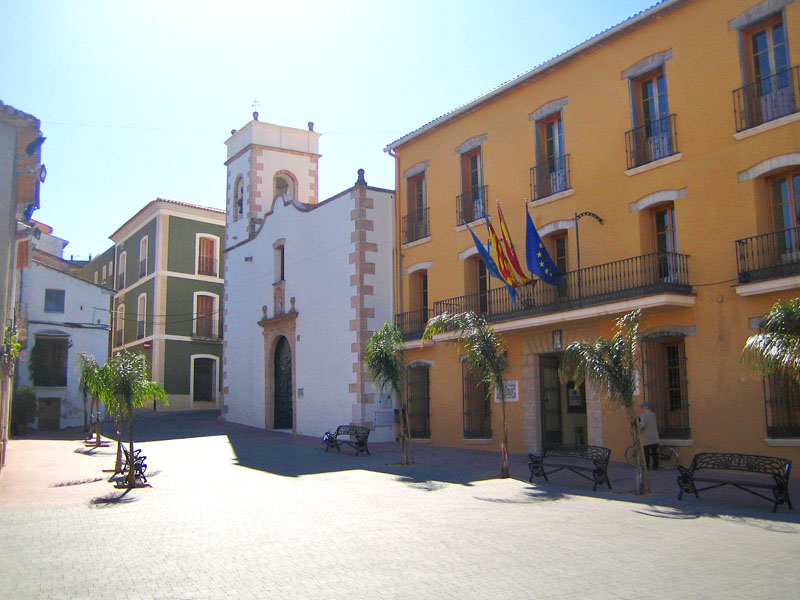 Photo of Convent square in Ondara, county Marina Alta, Region of Valencia, Spain.